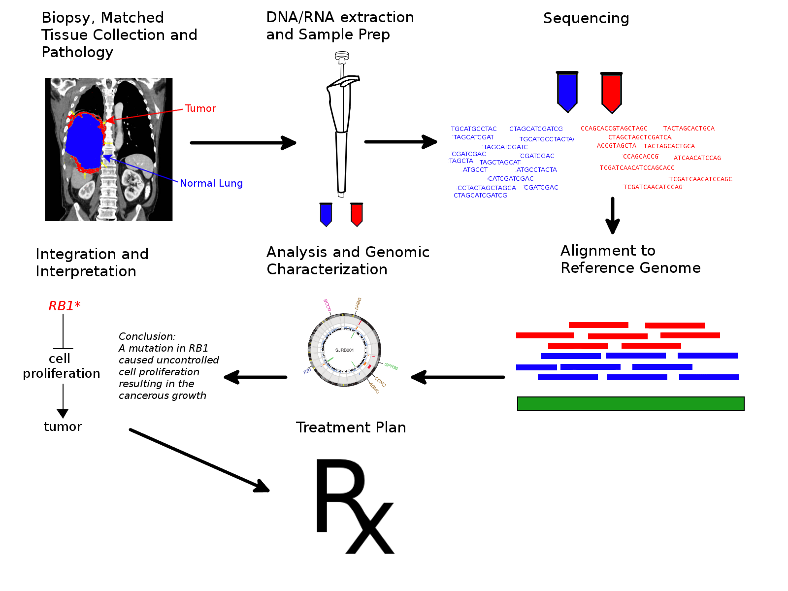 A figure illustrating the process of sequencing the genome of a tumor for the purposes of developing a rational therepy.